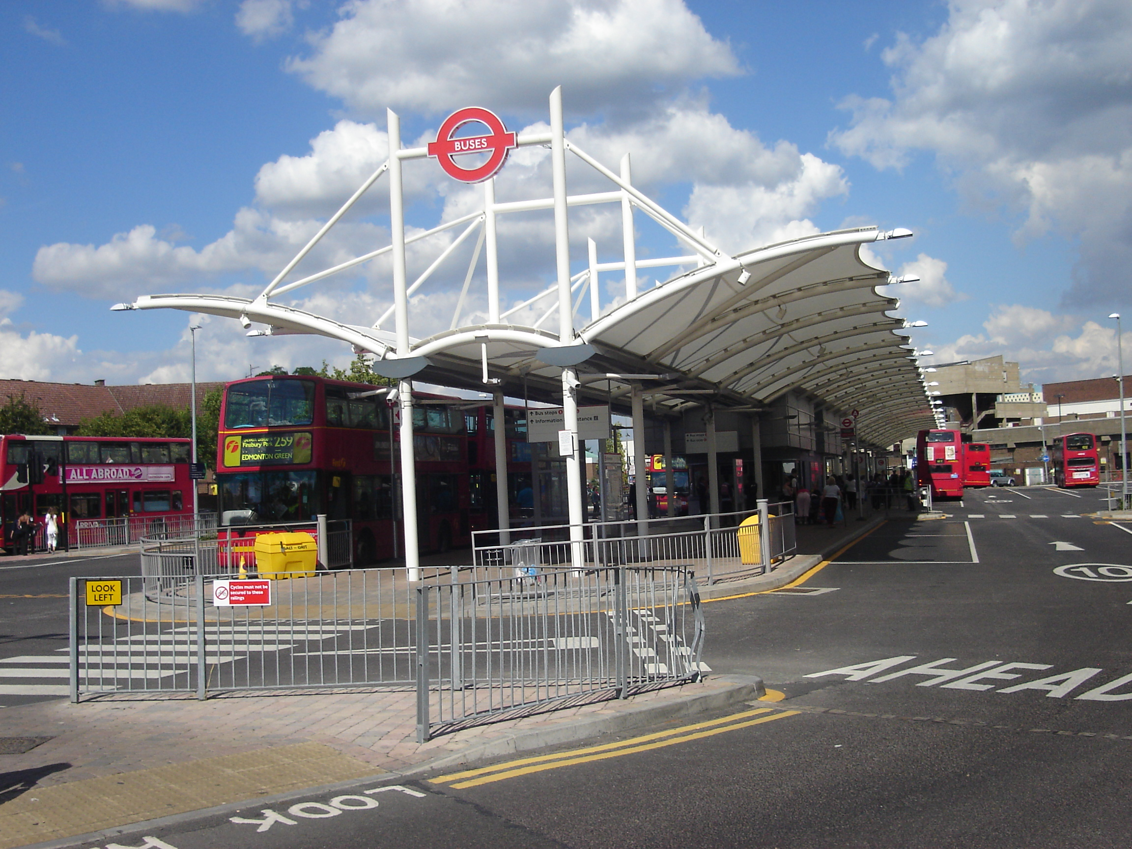 Picture of bus station at Edmonton Green